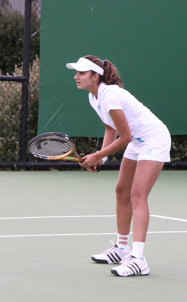 Sania Mirza at the 2007 Australian Open